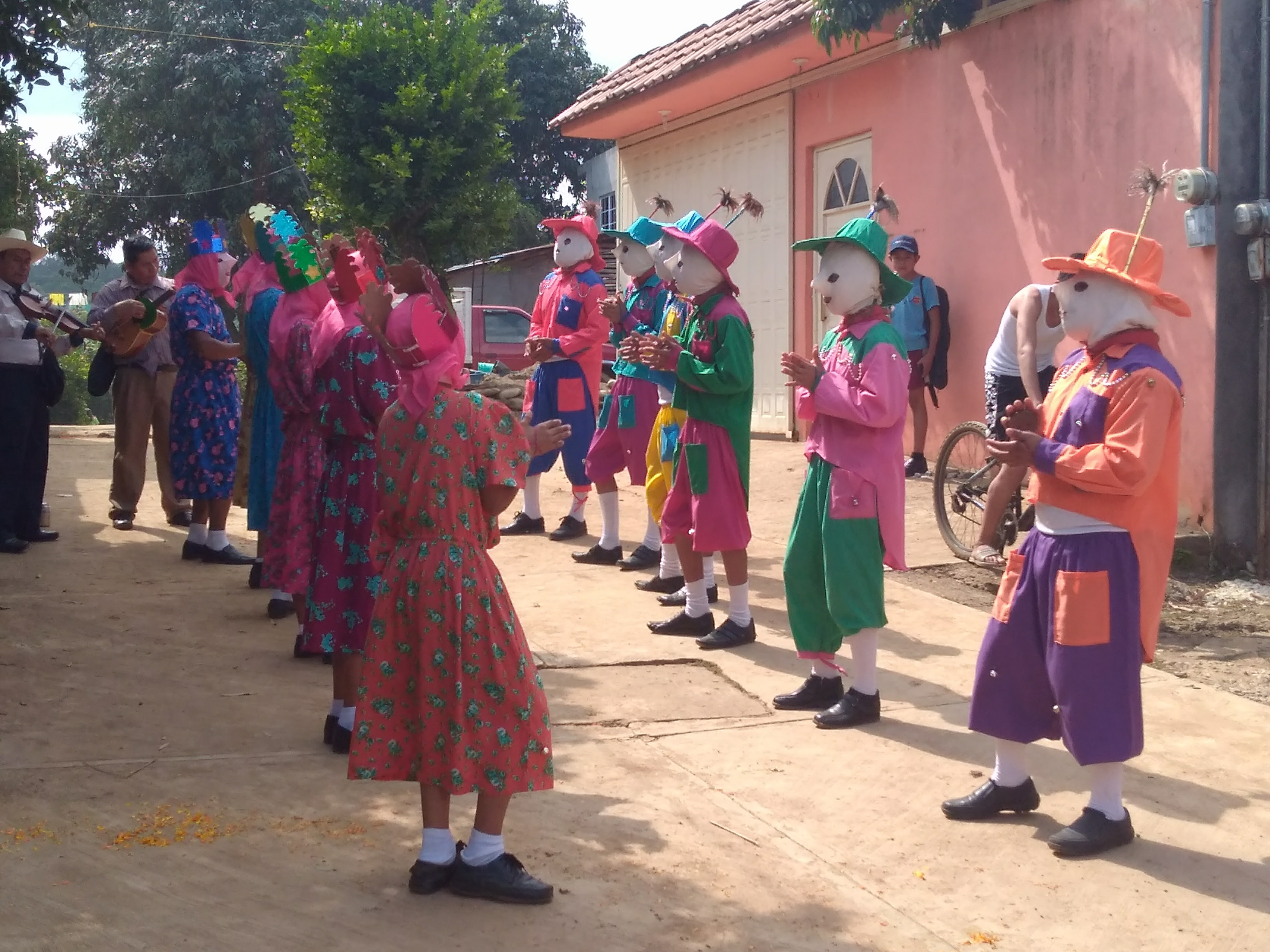 Young people performing traditional dance of the Day of the Dead in Huasteca Hidalguense This photo has been taken in the country: Mexico